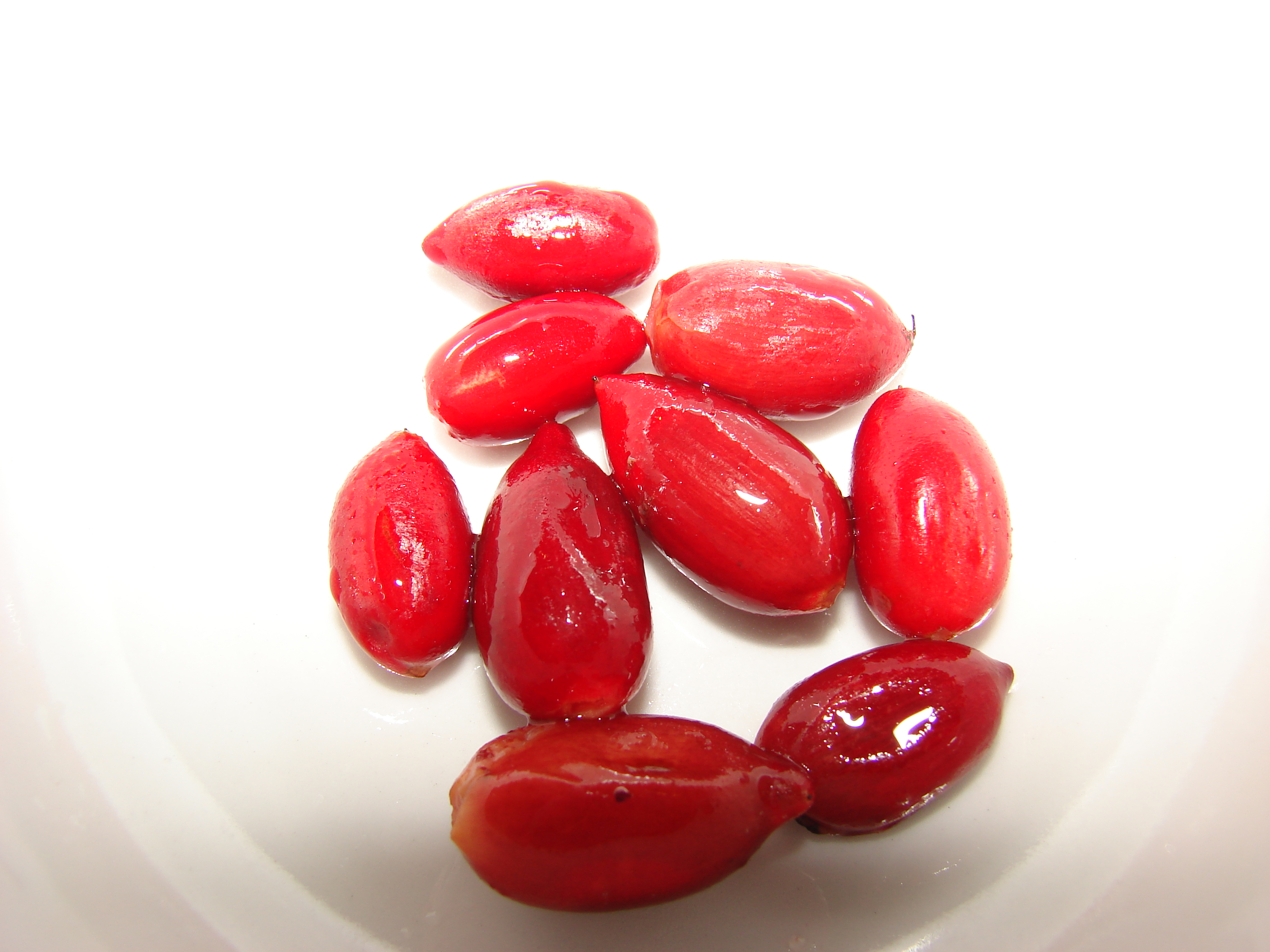 Synsepalum dulcificum (seeds). Location: Maui, Makawao